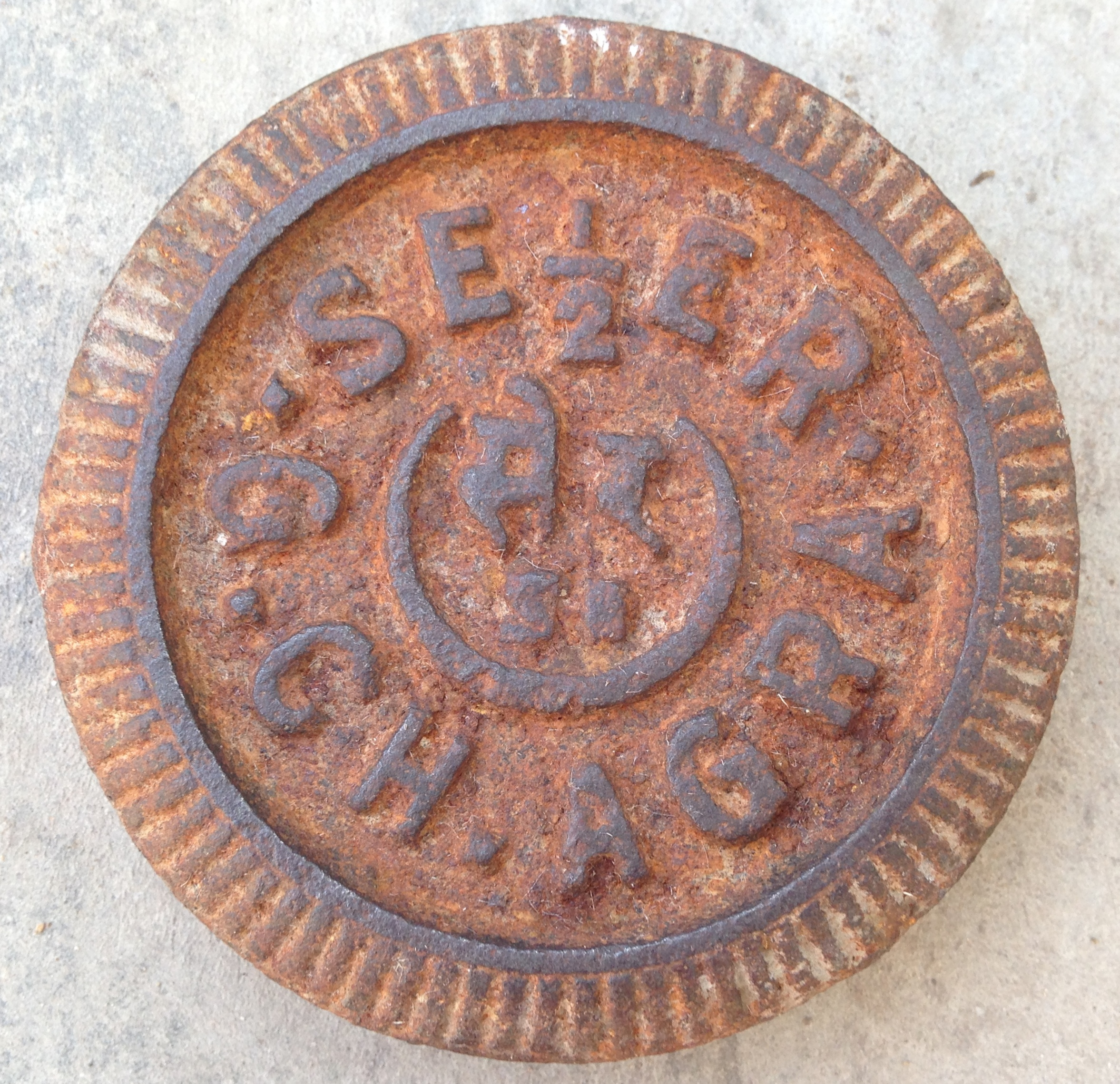 Adha Ser